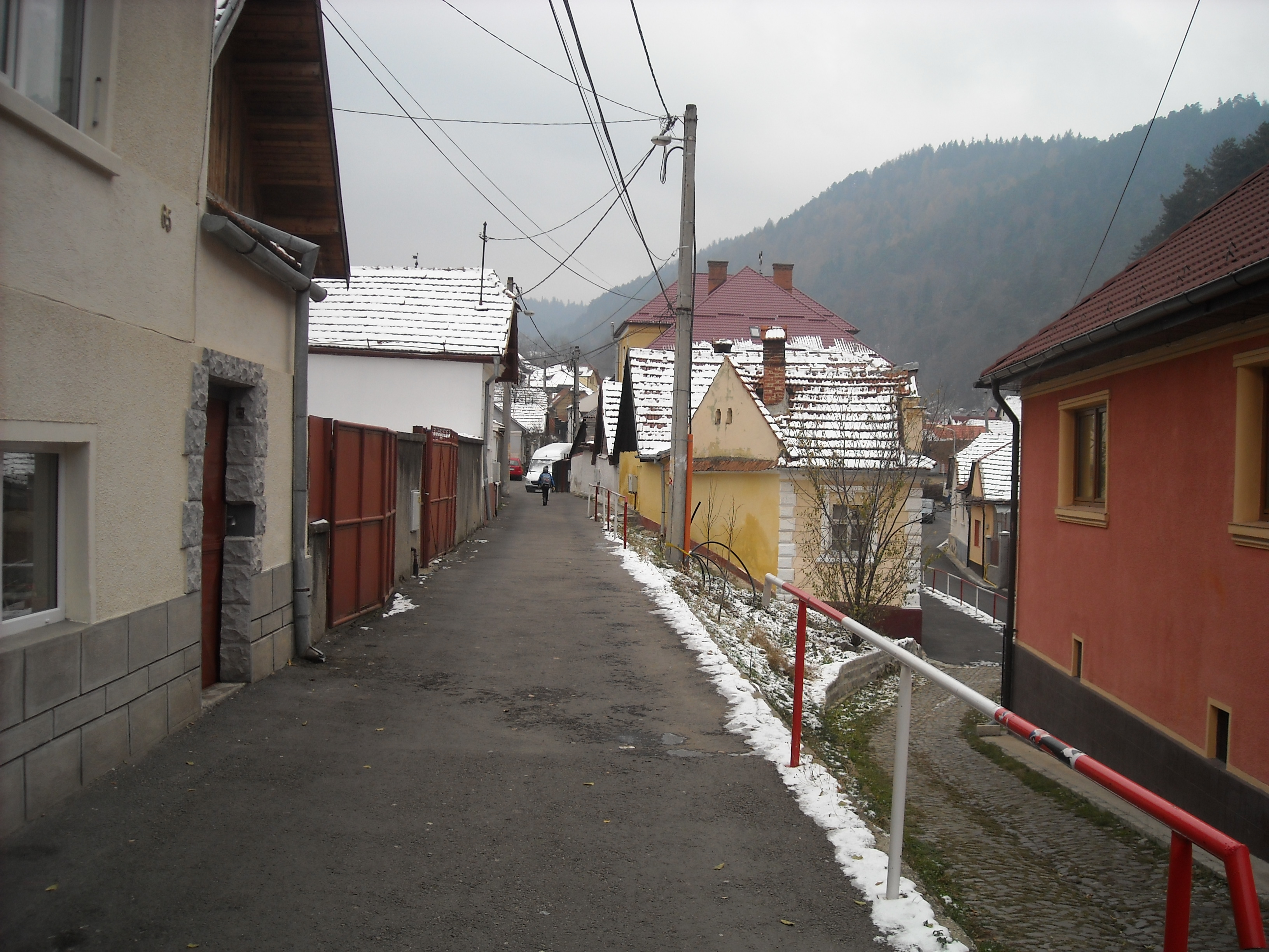 Tocile neighbourhood of Șcheii Brașovului